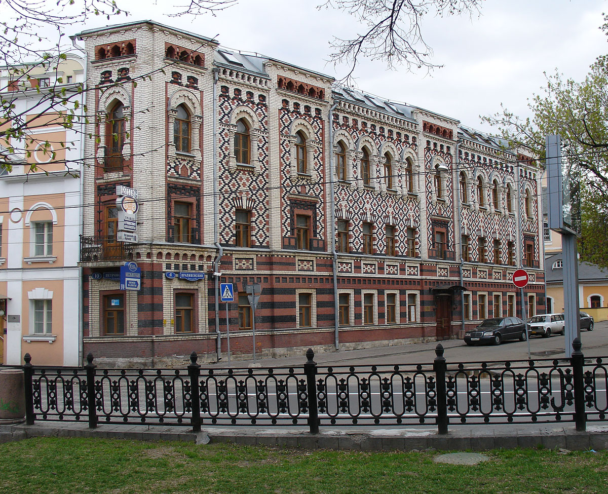 Krapivensky Lane, Moscow. Metochion of Patriarch of Constantinople